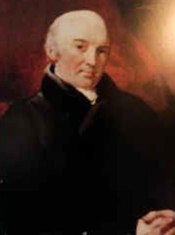 Christopher Lethbridge of Launceston in Cornwall circa 1800